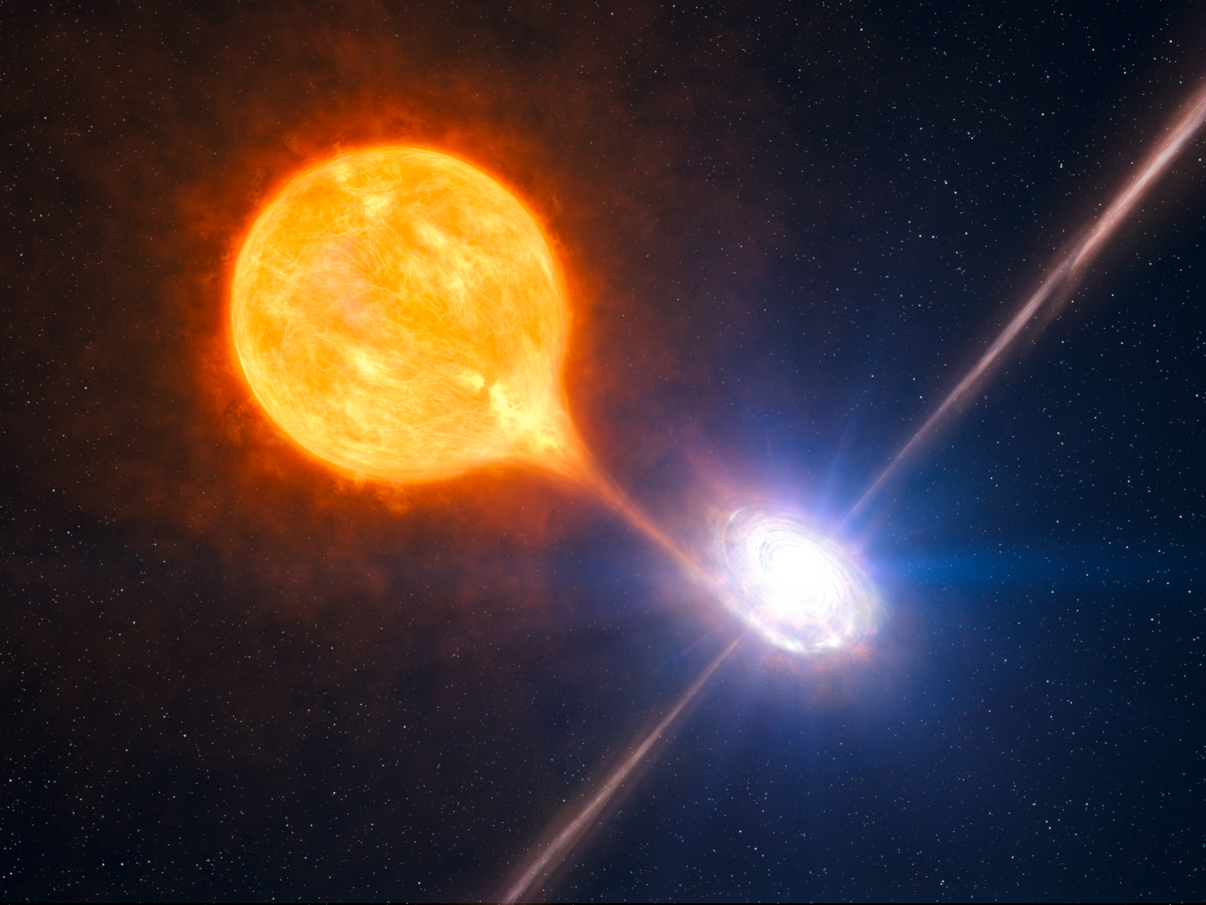 Combining observations done with ESO's Very Large Telescope and NASA's Chandra X-ray telescope, astronomers have uncovered the most powerful pair of jets ever seen from a stellar black hole. The black hole blows a huge bubble of hot gas, 1000 light-years across or twice as large and tens of times more powerful than the other such microquasars. The stellar black hole belongs to a binary system as pictured in this artist’s impression.